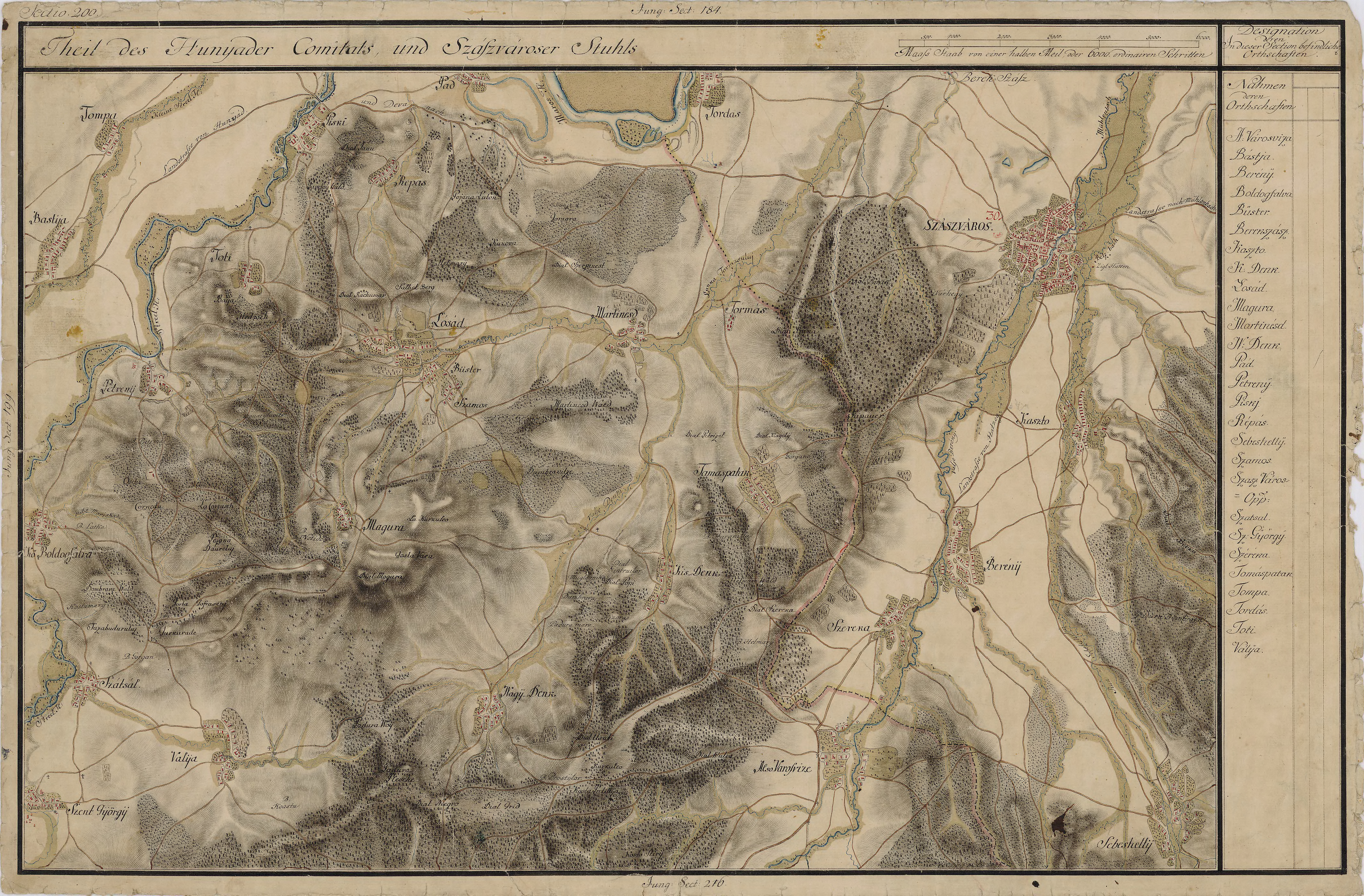 Grand Duchy of Transylvania, 1769-1773. Josephinische Landaufnahme pg.200